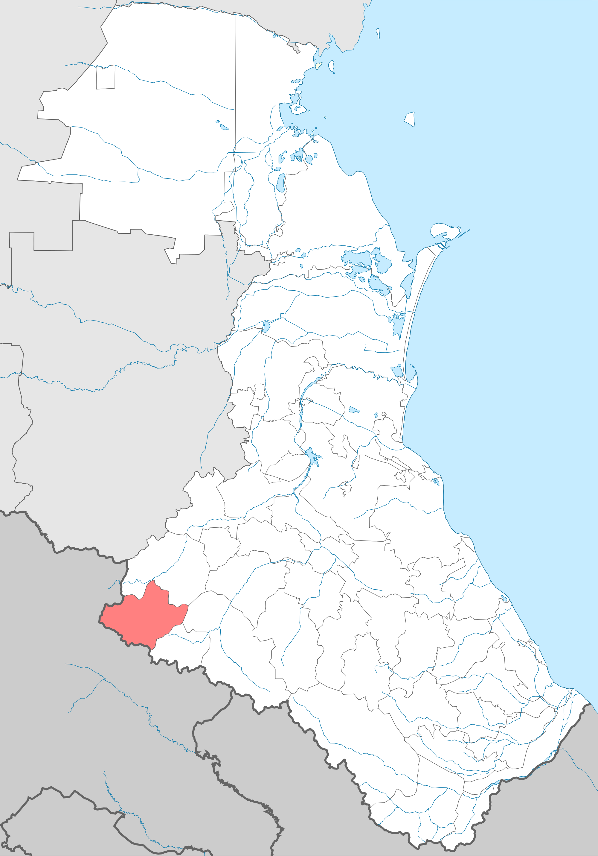 Tsuntinsky district locator map